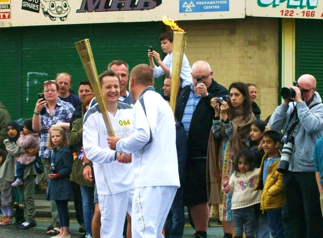 Colin Bonfield hands Olympic flame to Rob Littlewood, Ashton Rd, Oldham, 24 June 2012